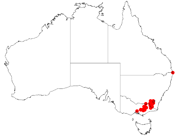 Acacia alpina Occurrence data from Australasia Virtual Herbarium downloaded from on 8 December 2018